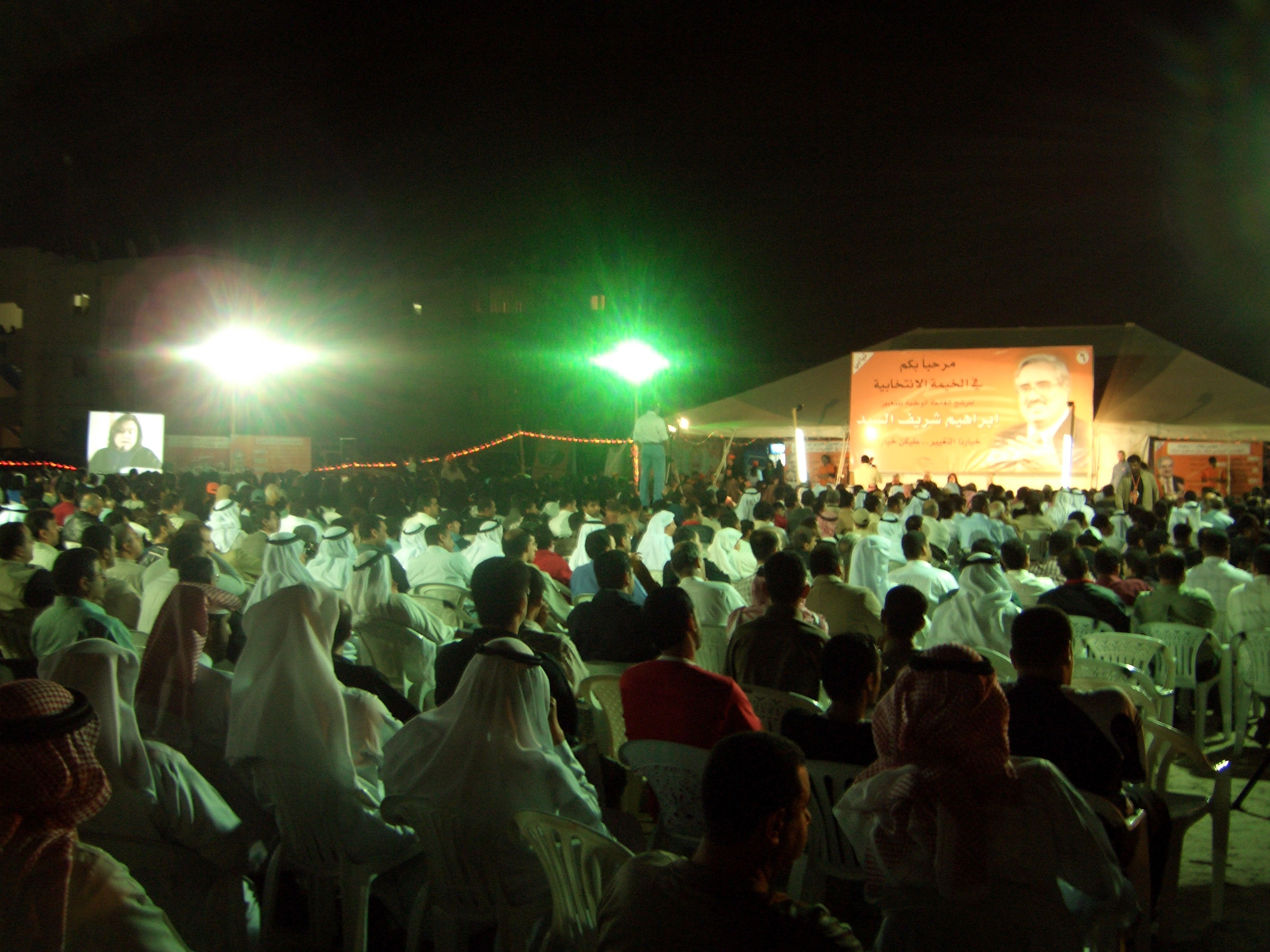 Photo: Soman